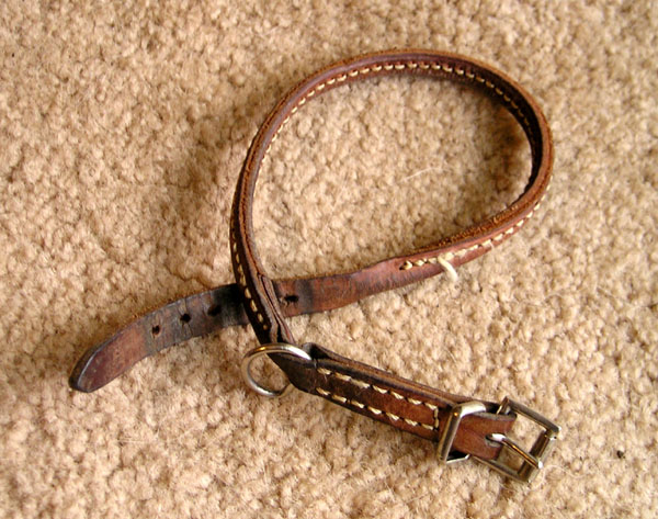 Buckle collar taken by Elf.